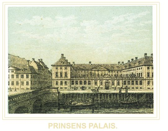 Prinsens Palæ in Copenhagen, Denmark c. 1800